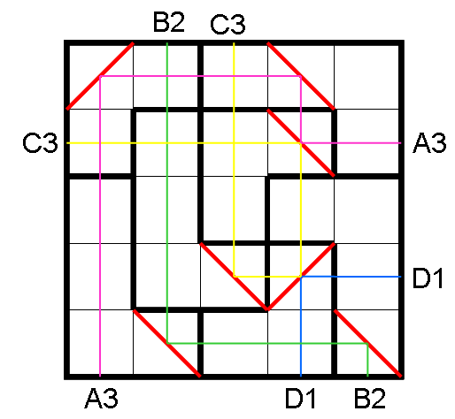 Solved Kin-Kon-Kan grid